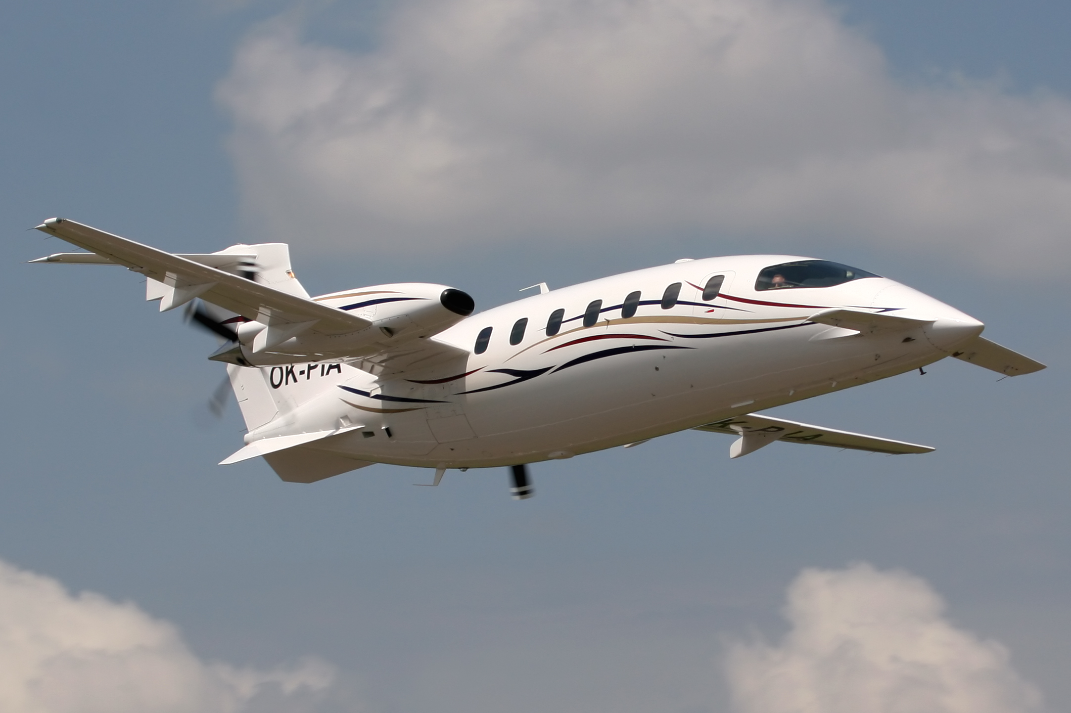 OKPIA inflight